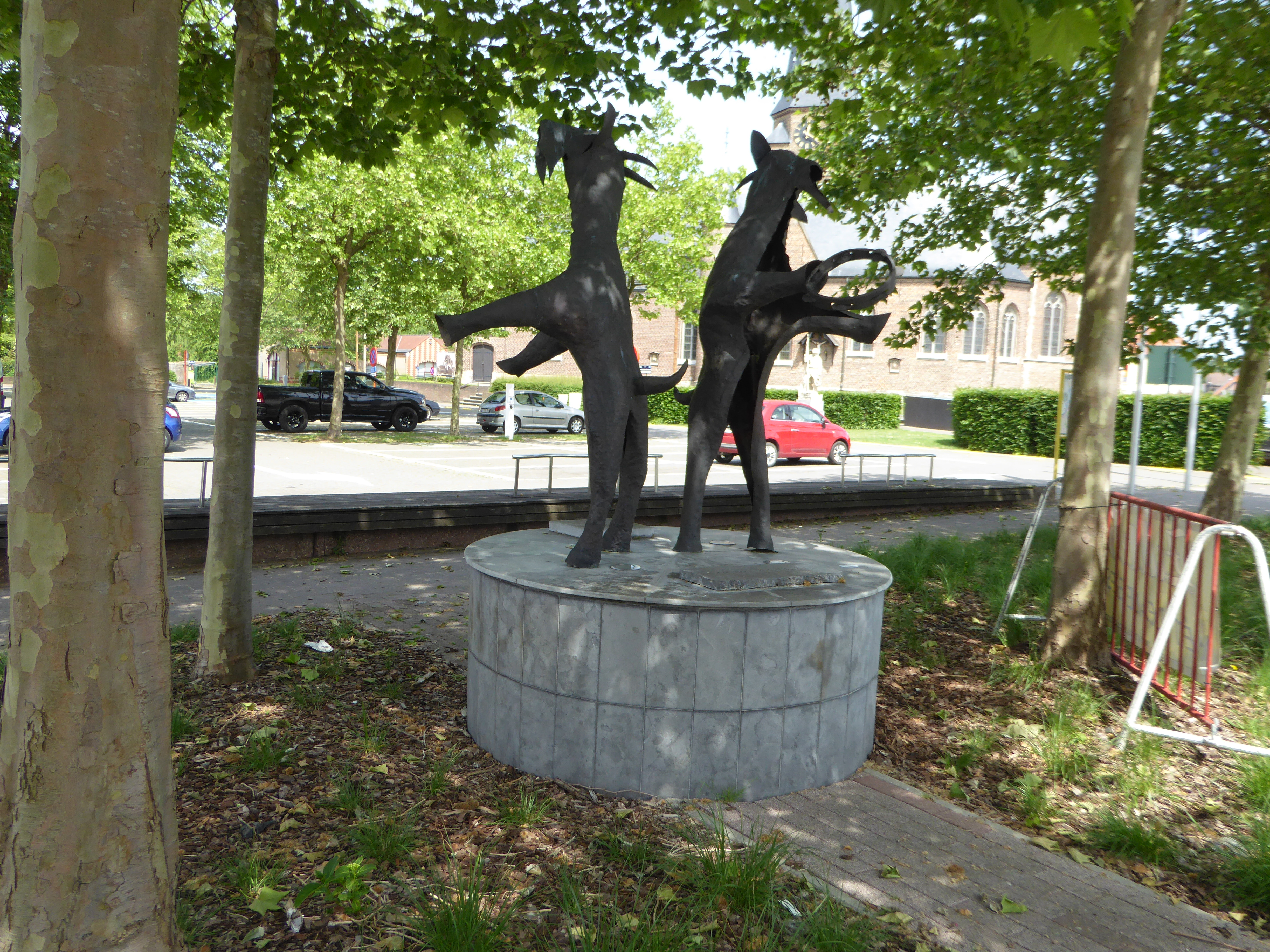 Photo of the statue with two dancing bucks on the church square in Zulte.